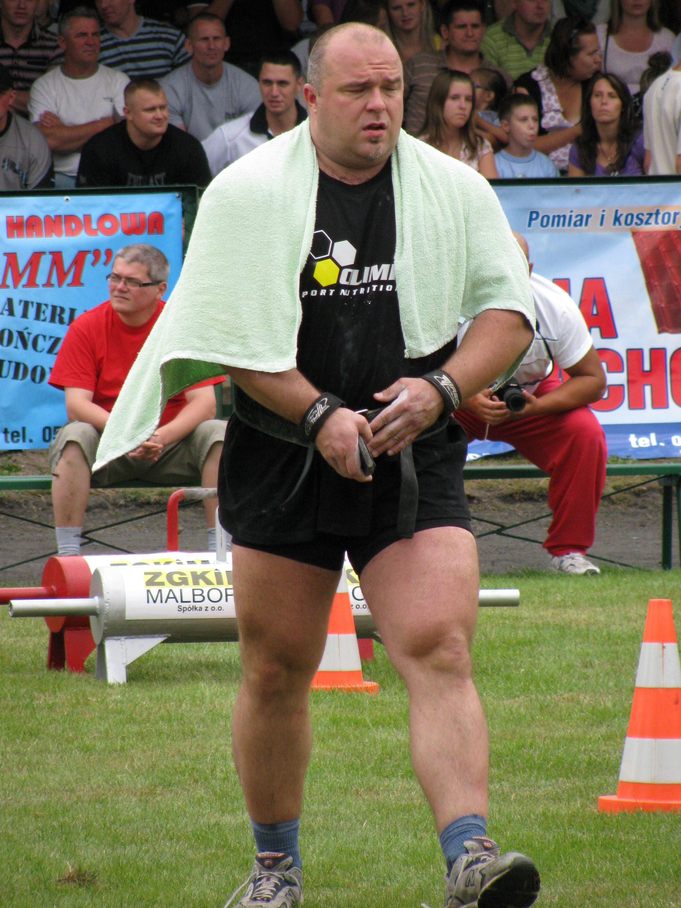 Lubomir Libacki - a strength athlete from Poland